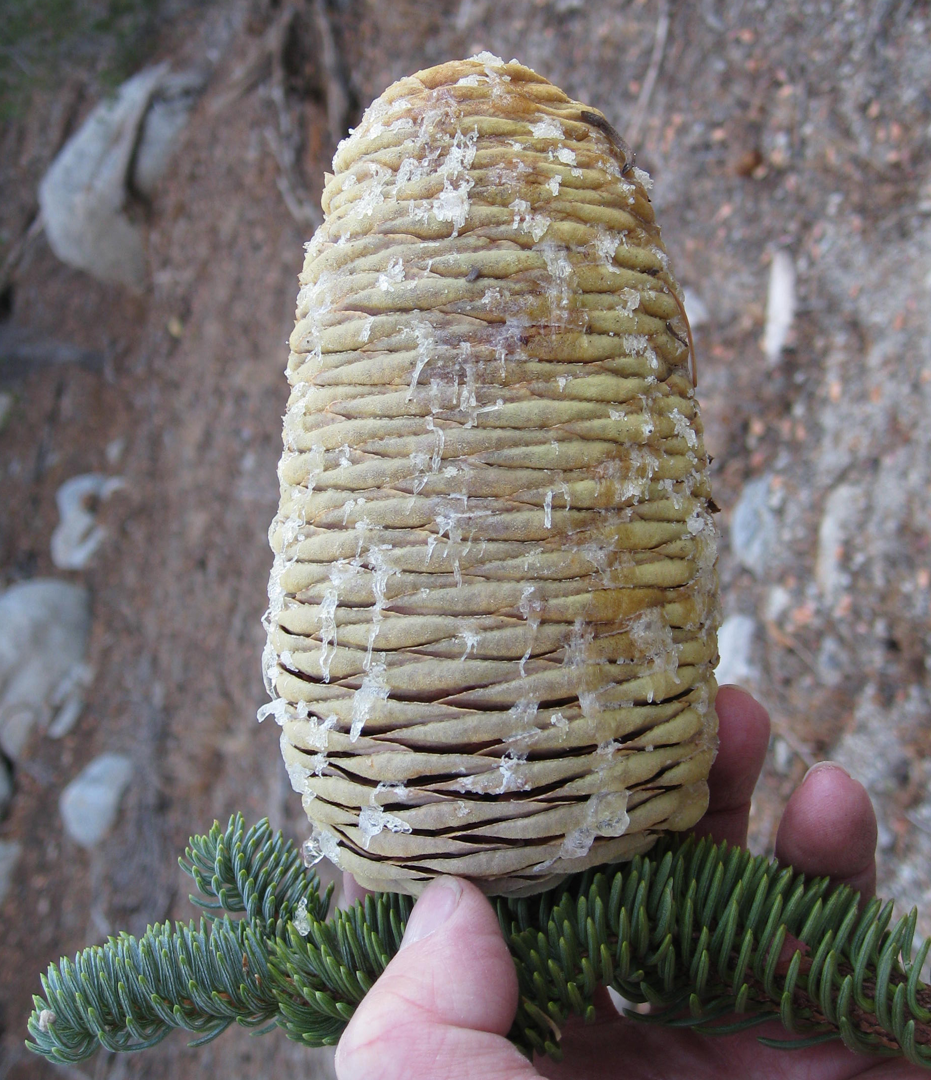 Abies magnifica cone, between Monument Pass and Star Lake on the Tahoe Rim Trail at about 2,700 metres (8,900 ft). Tahoe National Forest - California